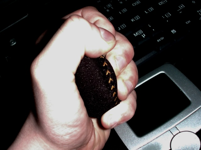 Manipulation of a stress ball, laptop in background.